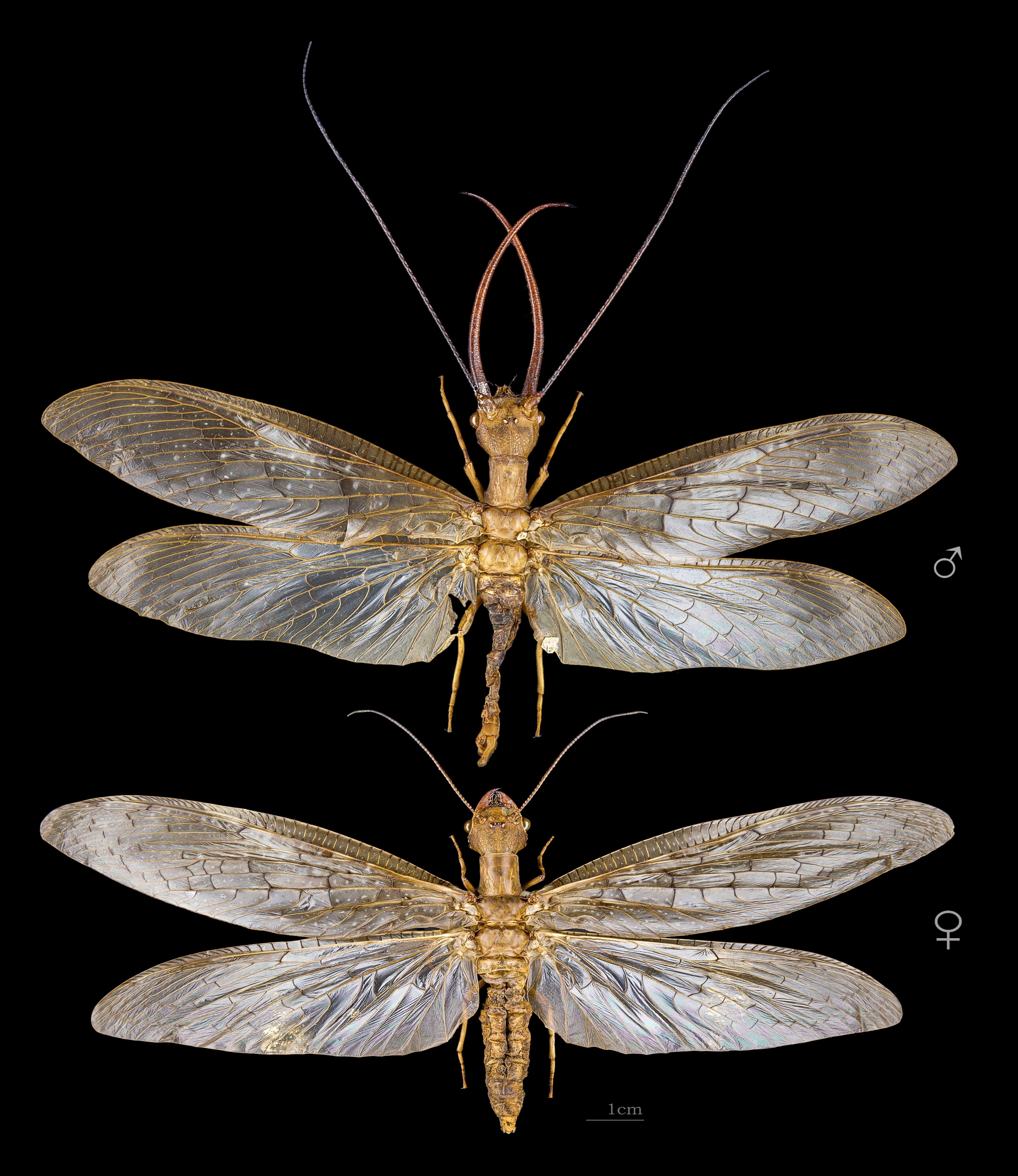 Eastern Dobsonfly - Both sexes